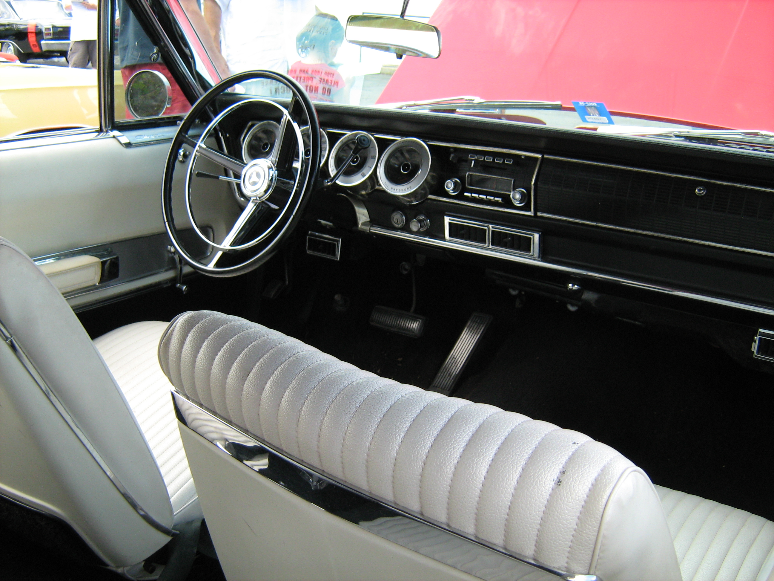 Interior and dashboard of a 1967 Dodge Charger fastback